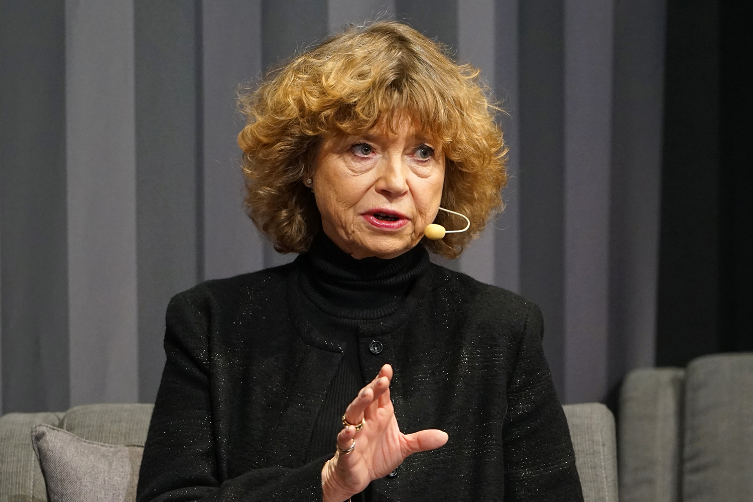 Bente Scavenius - Danish art historien, art critics and writer at the Copenhagen Book Fair "BogForum 2017", Copenhagen, Denmark